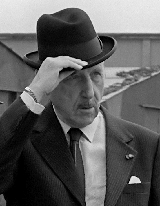 Secretary General of NATO, Dr. J.M.A.H. Luns, tips his hat as a troop review of Headquarters Battery, 8th Infantry Division, takes place during the opening ceremonies for Reforger '83. Behind him is Supreme Allied Commander Europe, Gen. Bernard Rogers.